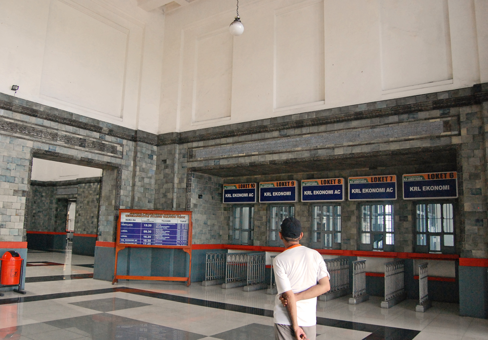 Tanjung Priok (TPK) train station at Jakarta. Interior.